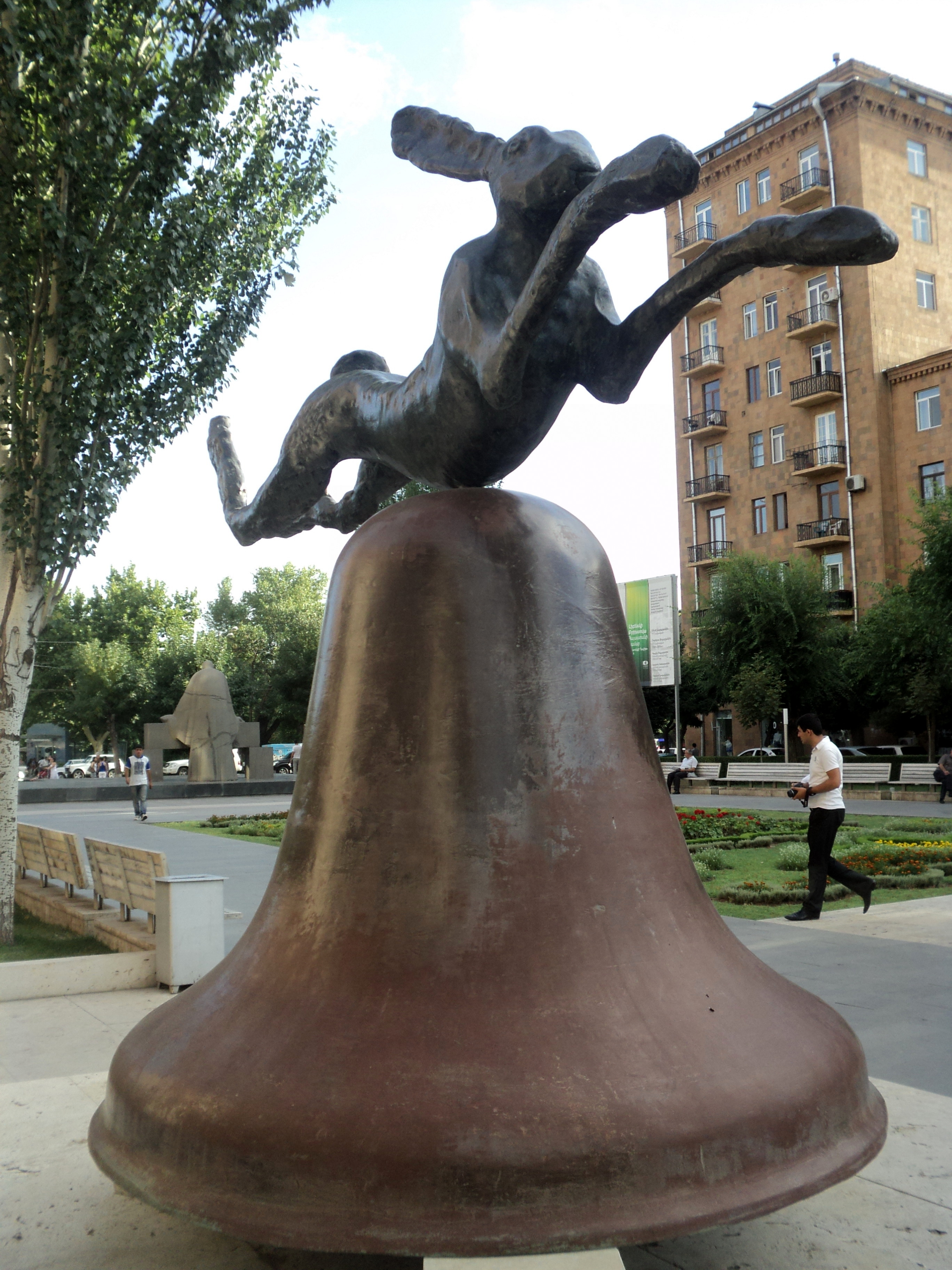 Hare on Bell on Portland Stone Piers in Cafesjian Center for the Arts, Yerevan